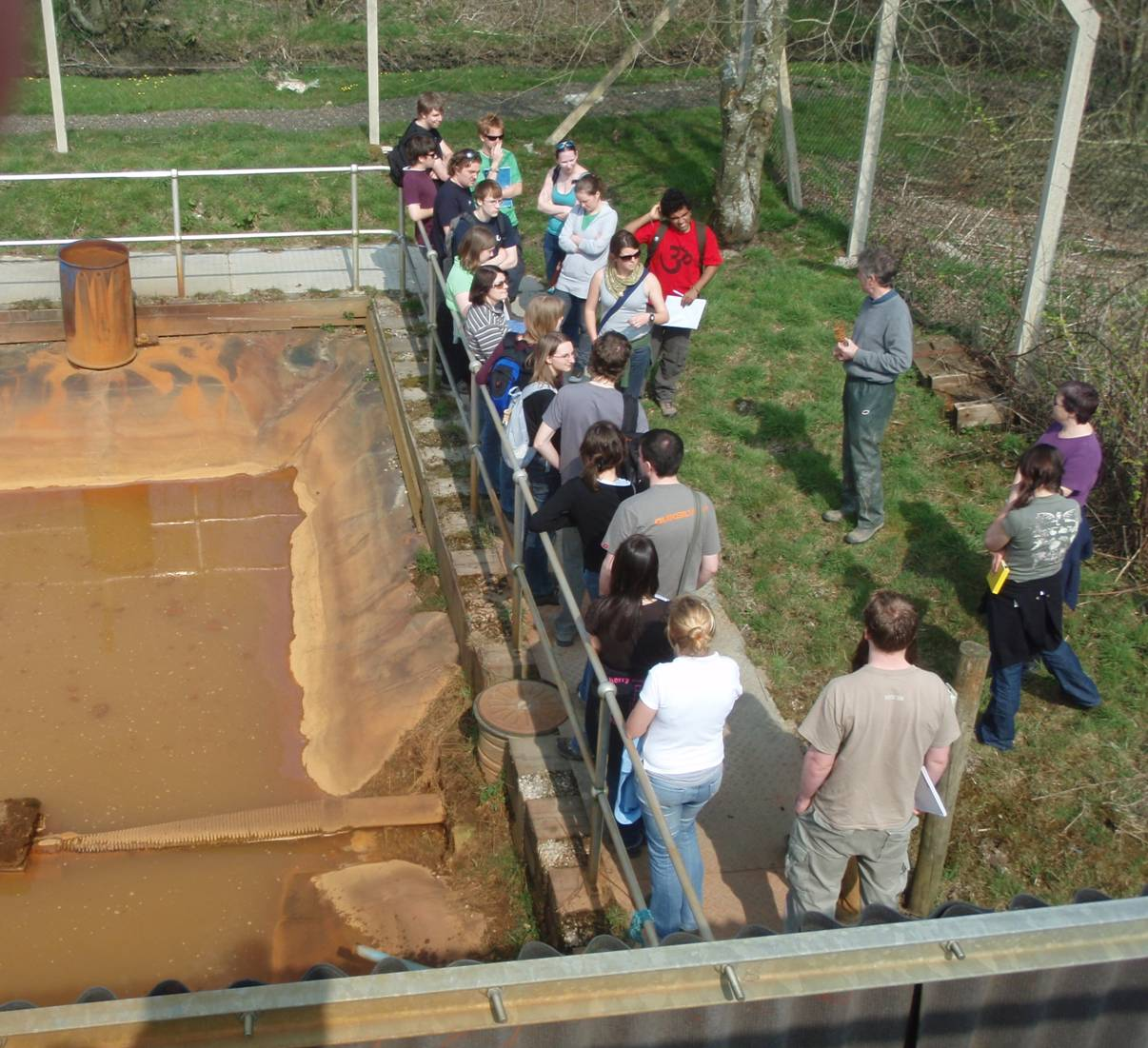 Students from Aberystwyth University view the leachate lagoon at Nantmel landfill site, Powys. (Photo taken from on top of the biofilm tower)